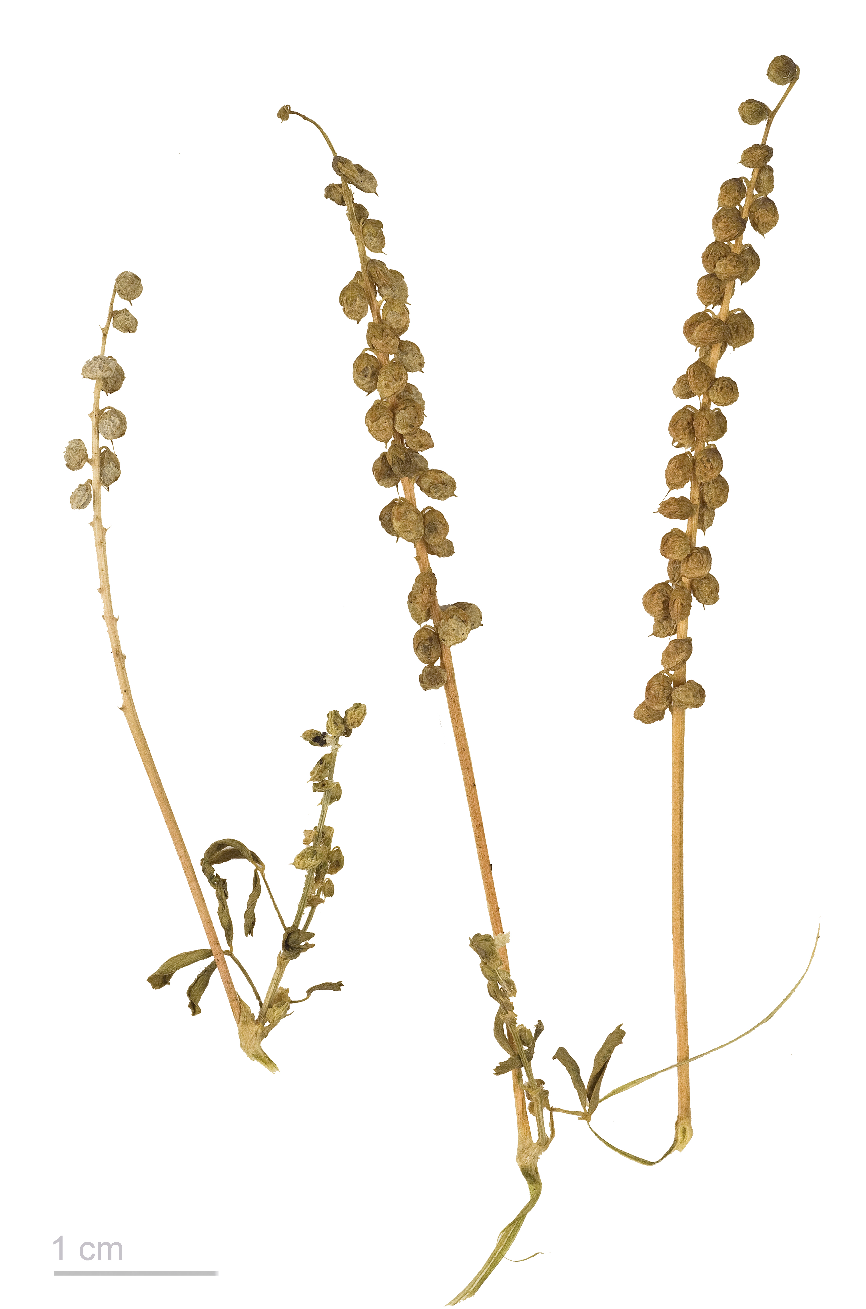 Indian sweet-clover , fruits and seeds